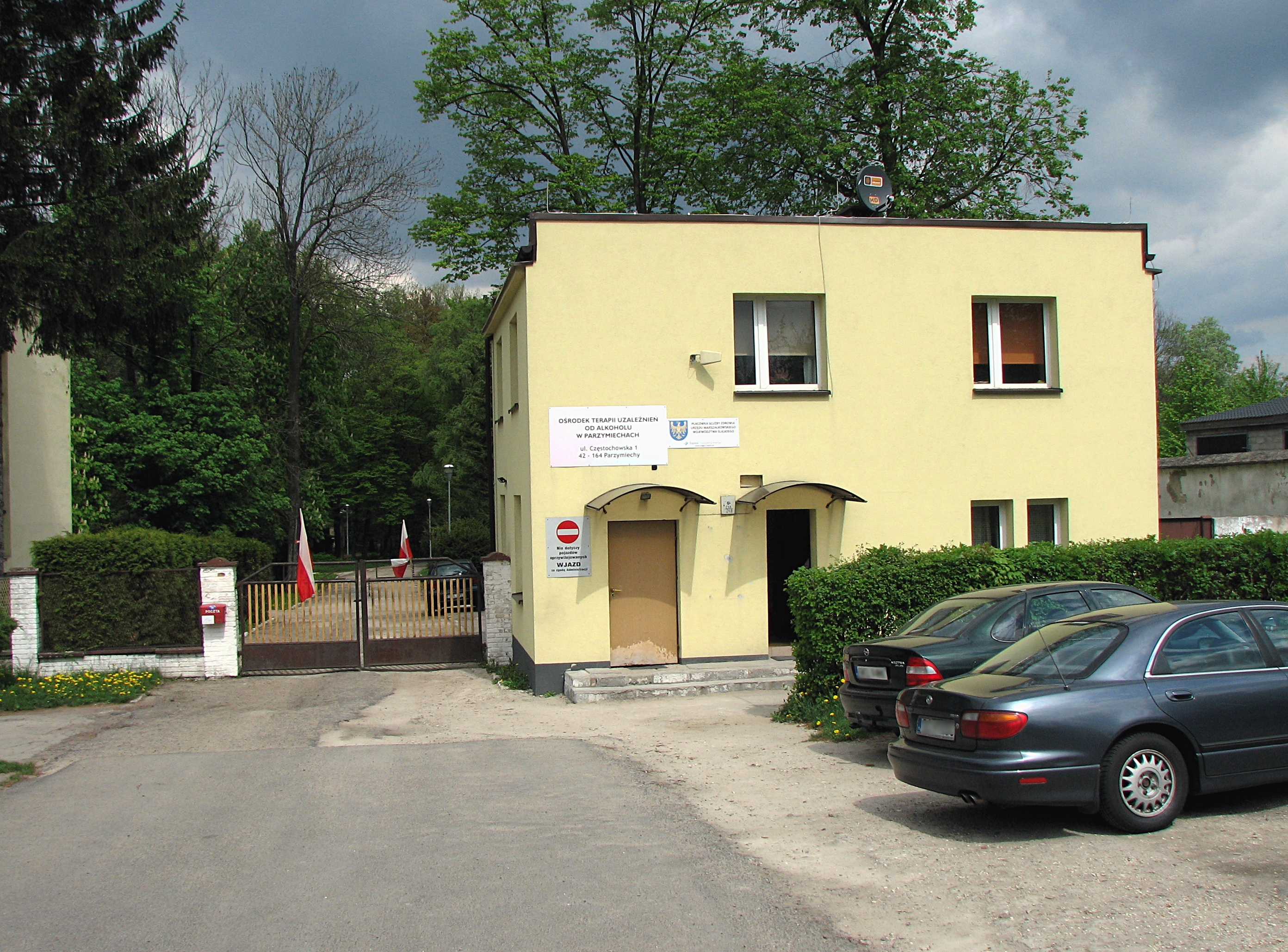 Parzymiechy, Silesian Voivodship. Alcohol dependency therapy center.